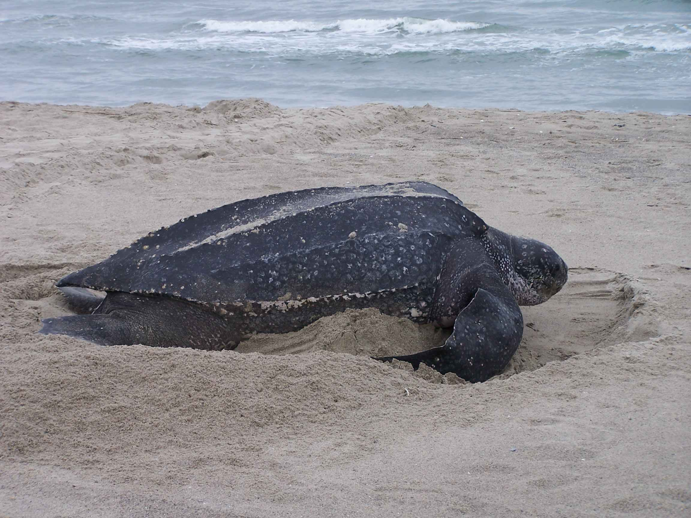 Image title: Leatherback turtlle nesting dermochelys coriacea Image from Public domain images website